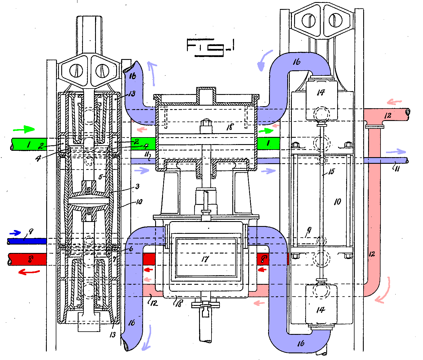 Internal combustion engine